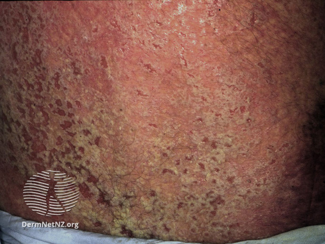 Kaposi varicelliform eruption of Darier's disease